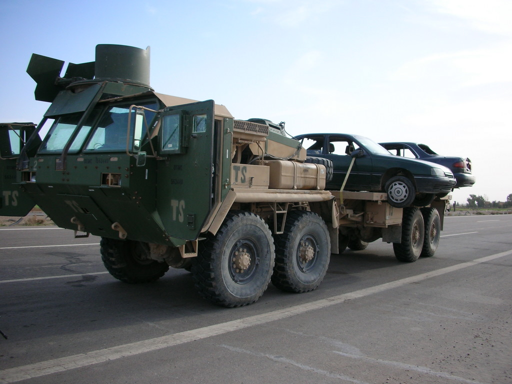 Logistics Vehicle System variant MK48/14 carrying two abandoned insurgent vehicles, outside of Fallujah. The MK48 is equipped with the MAK Armor-kit.